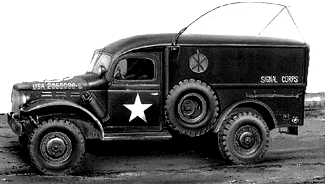 Dodge WC-54 of the US Signal Corps